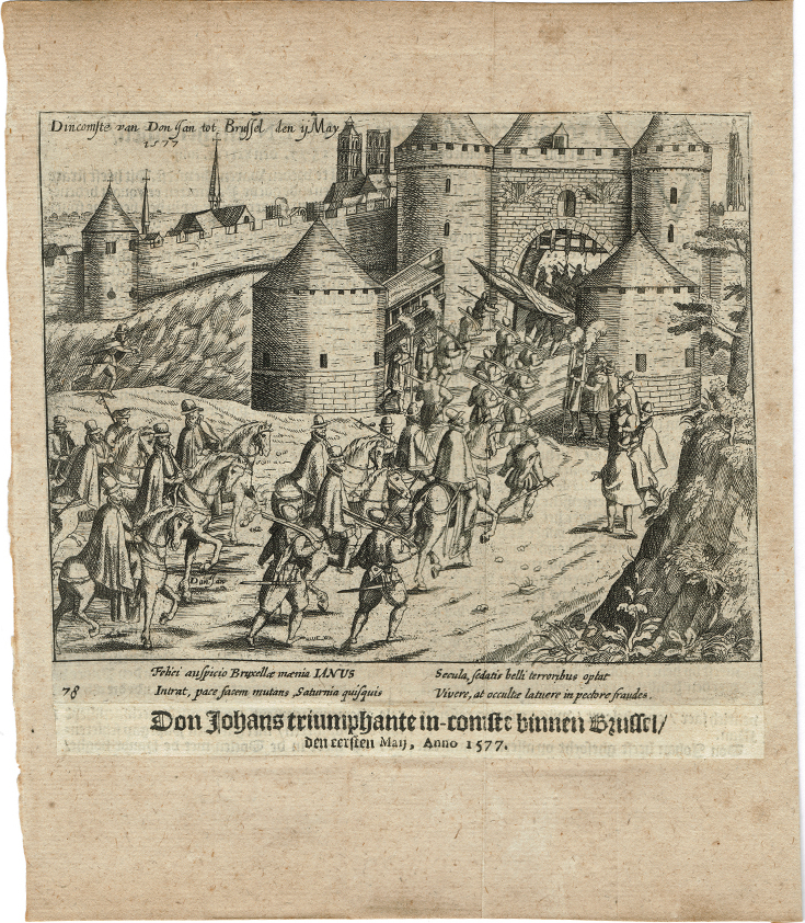 Print from 'The Wars of Nassau' by G. Baudartius, published in Amsterdam by M. Colin de Thovoyon in 1616. Subject: The Joyous Entry of John of Austria in Brussels on 1 May 1577.